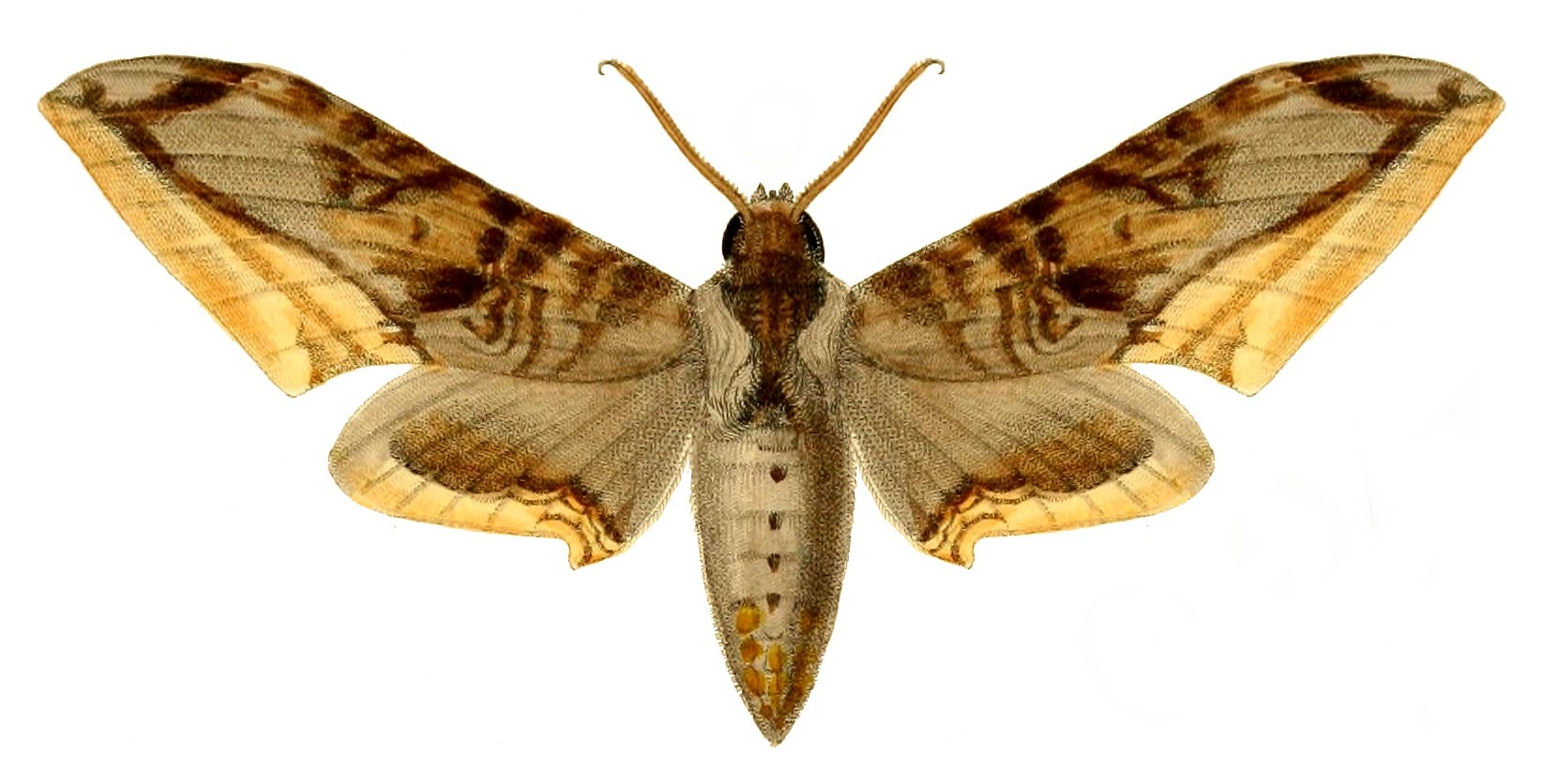 Ambulyx gussfeldtii = Acanthosphinx guessfeldti